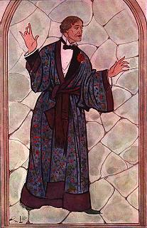 Caricature of Lou Tellegen (1881-1934). Caption read "Dorian Gray".